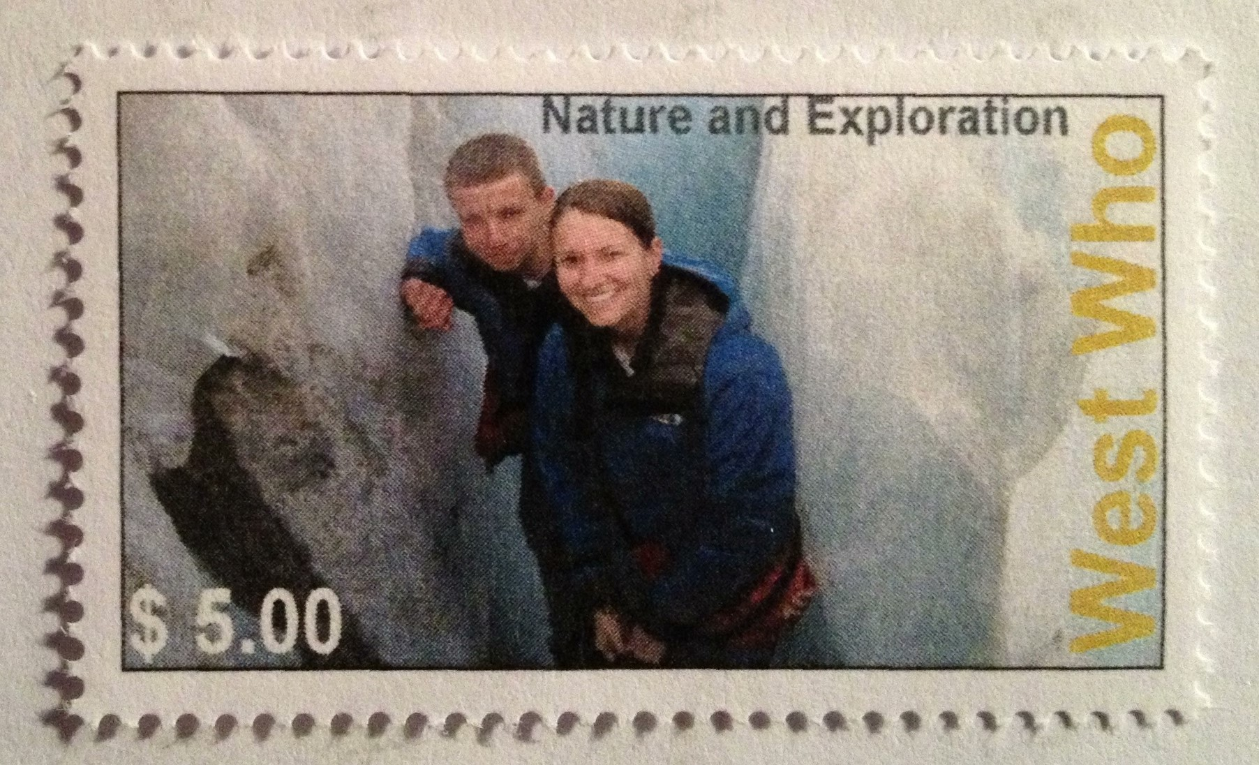 Postage stamp from the Republic of West Who. West Who President William Farr and Environment Minister Margaret Neiderer in New Zealand. Read more